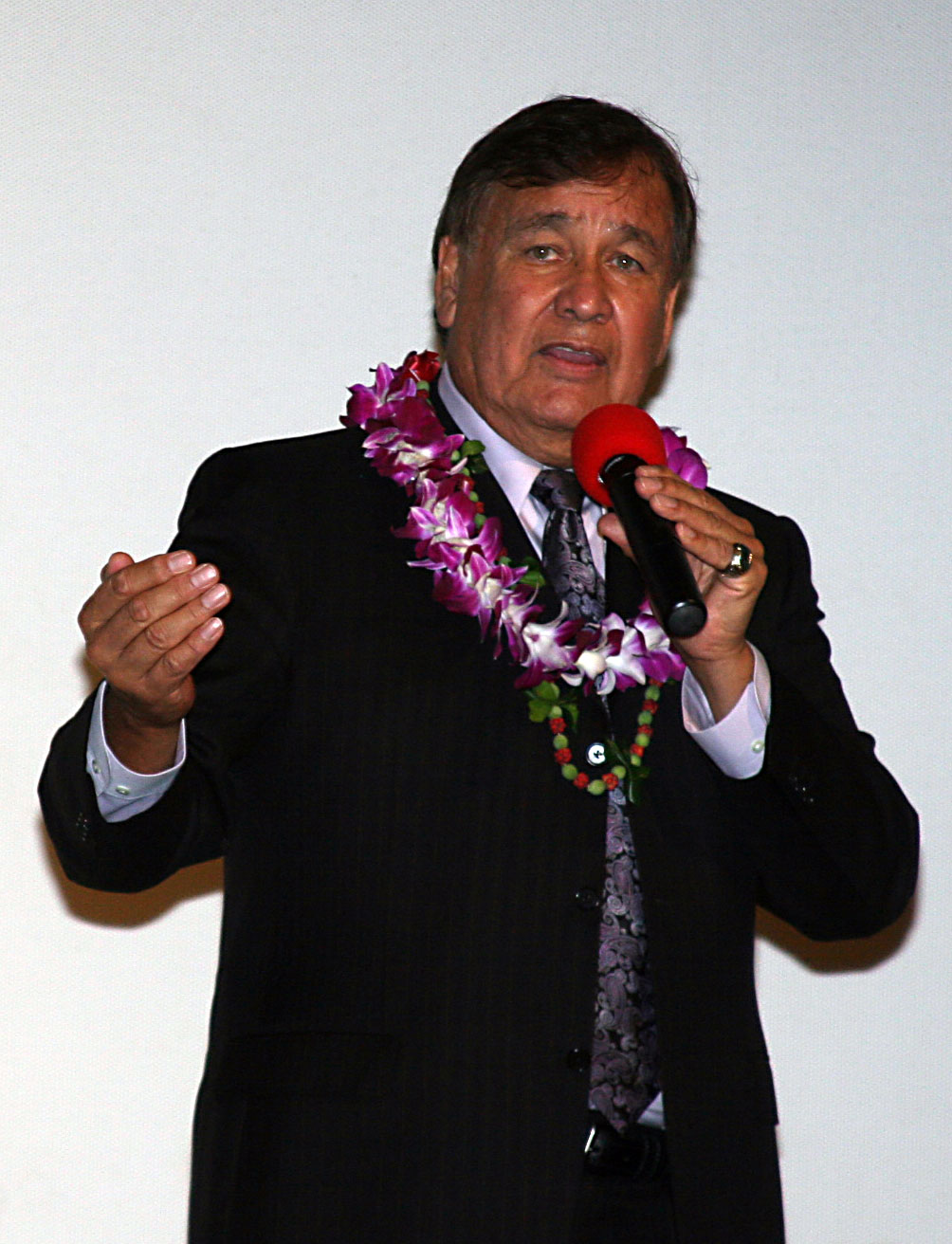 Billy Mills, the only American to win a 10,000-meter race in an Olympics, speaks to the audience for the American Indian Heritage Month observance Nov. 23 at Sgt. Smith Theater on Schofield Barracks.